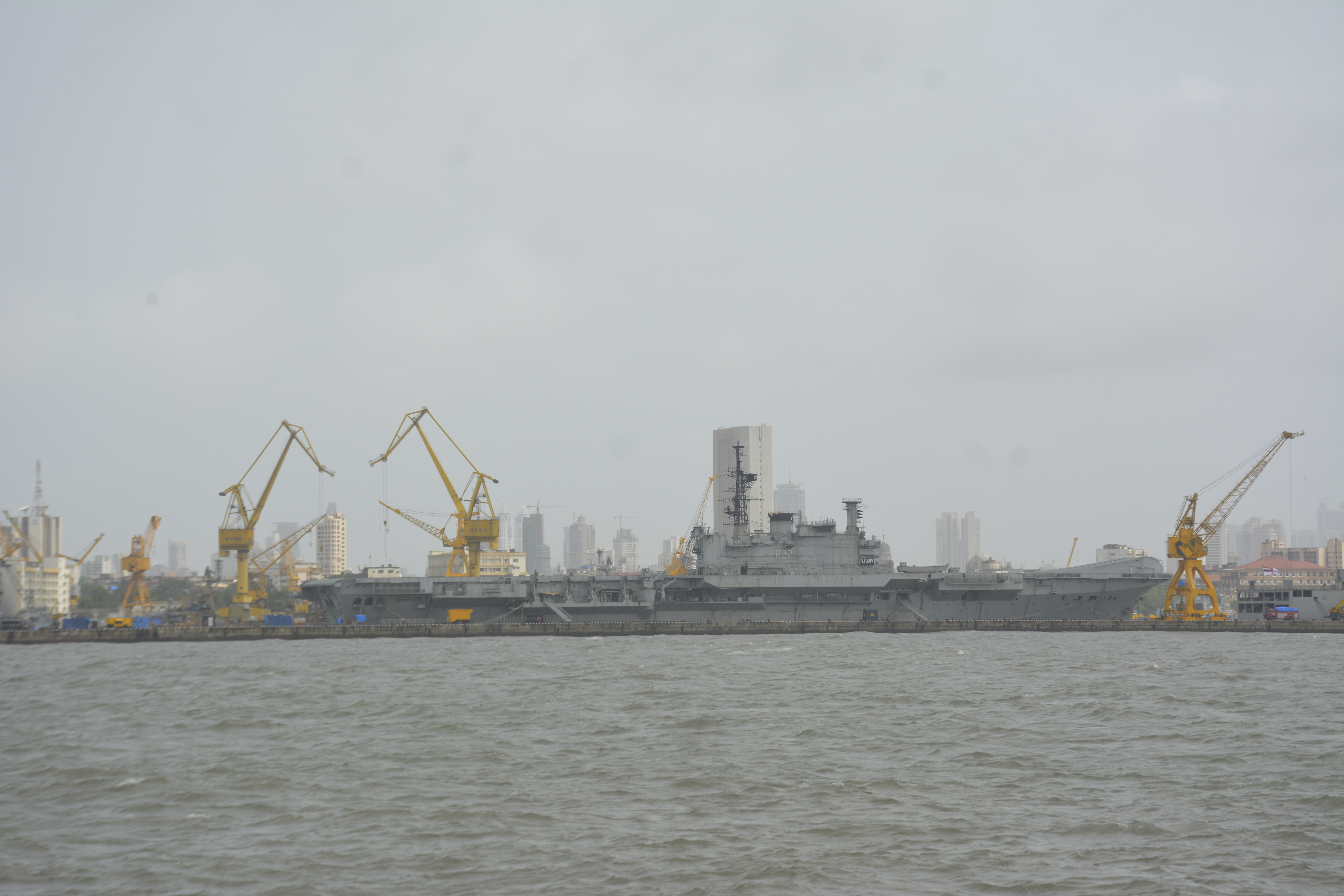 INS Viraat, Indian Navy's second aircraft carrier docked at Mumbai Naval Docks after decommissioning in July, 2019